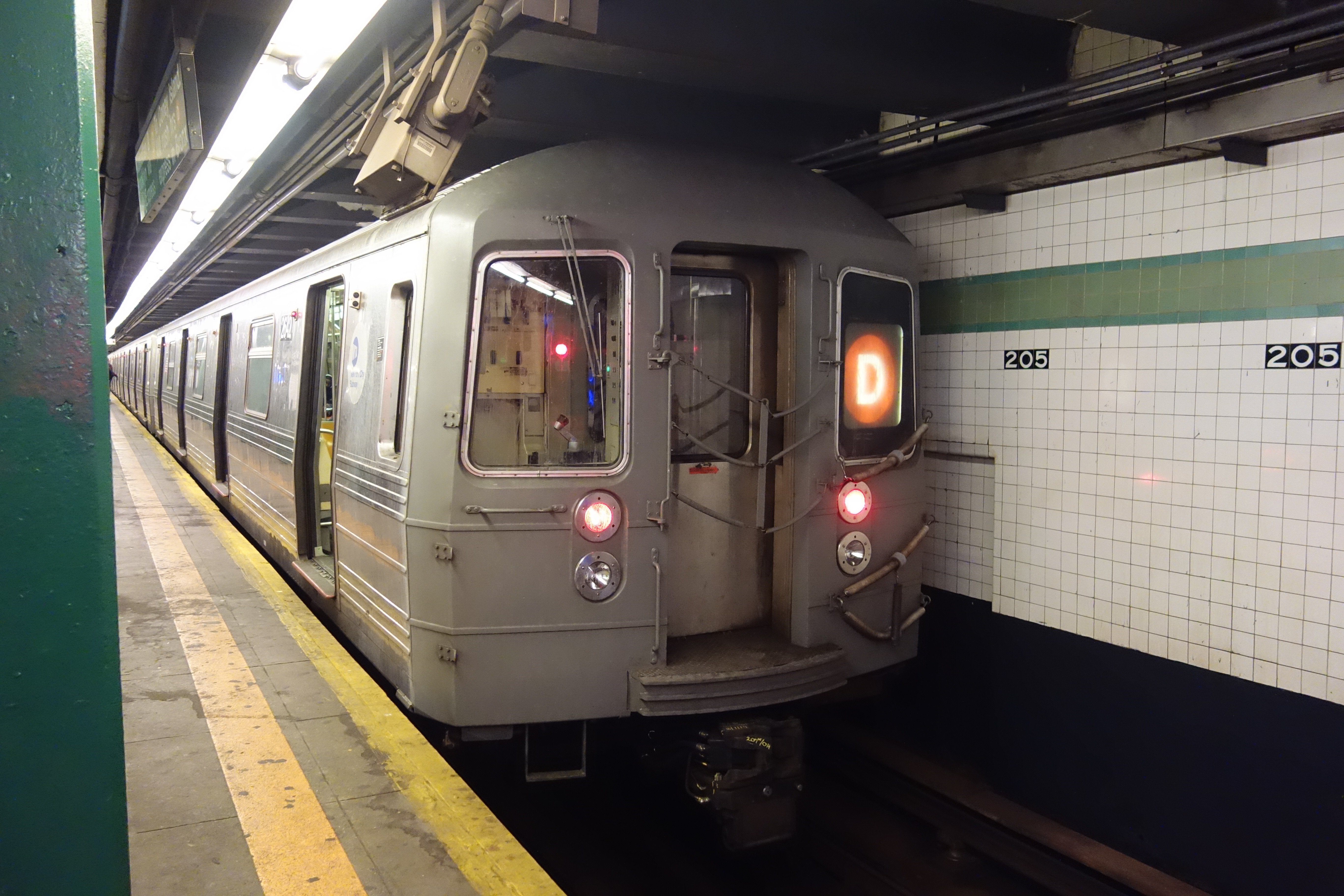 A Coney Island-bound D train entering service on the Manhattan-bound track at the east end of the Norwood–205th Street station, under East 205th Street and Perry Avenue in Norwood, Bronx.